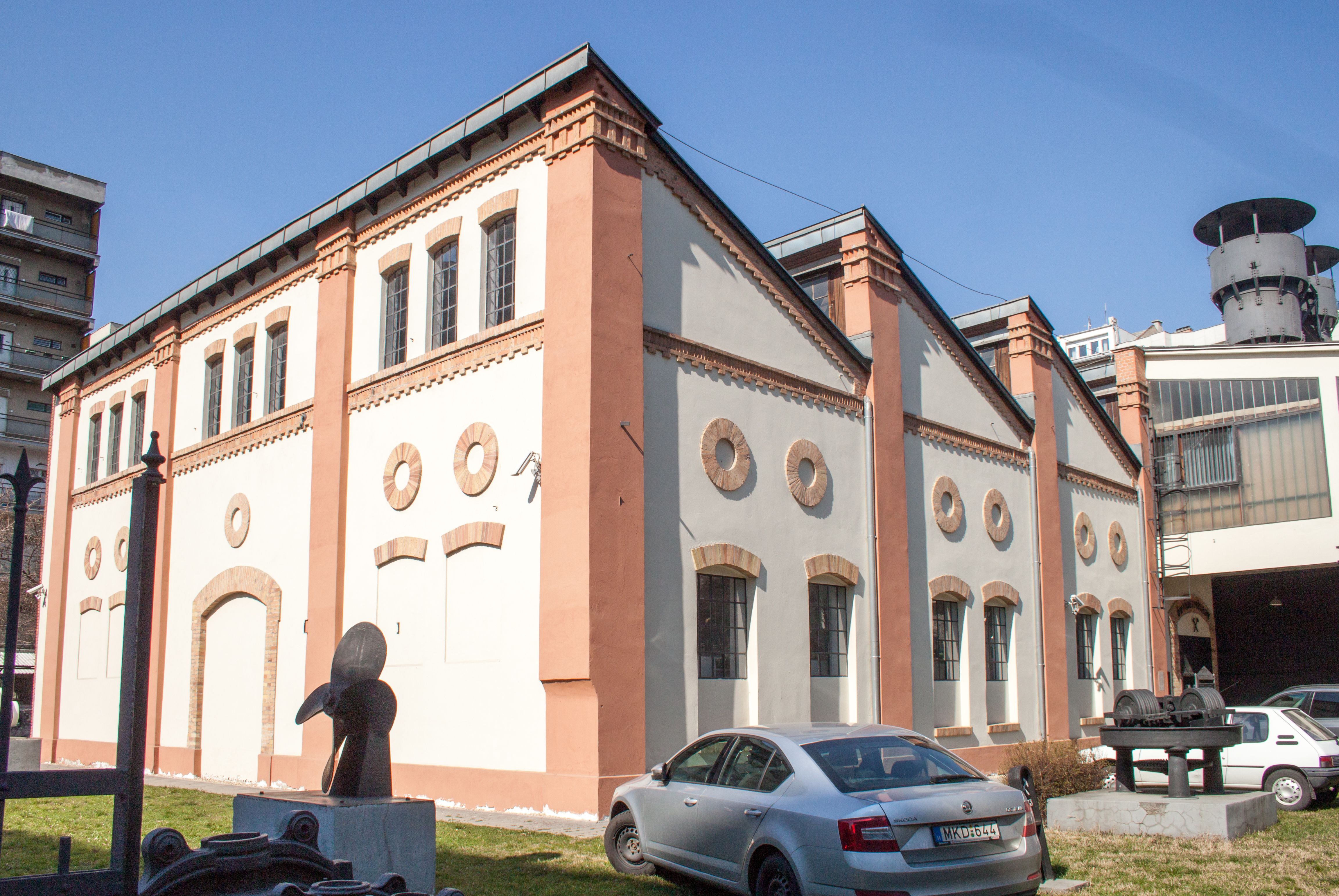 Foundry Museum, outside view